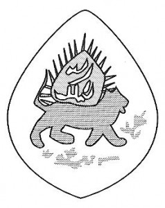 Nadir Shah seal